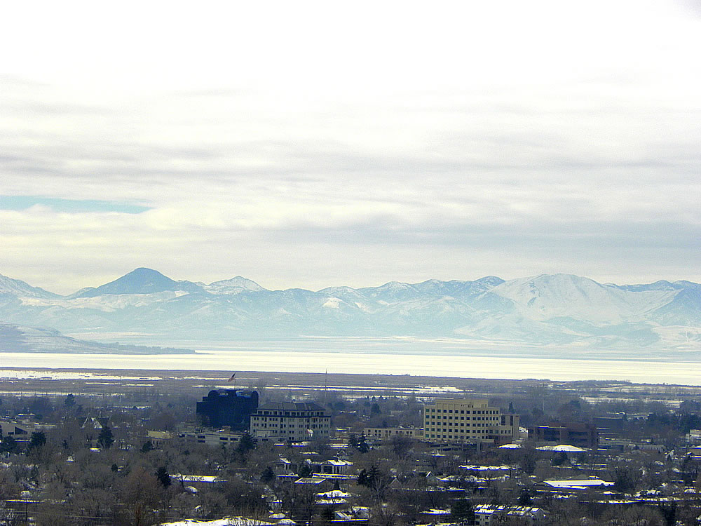 Overlooking Provo, Utah, and its downtown